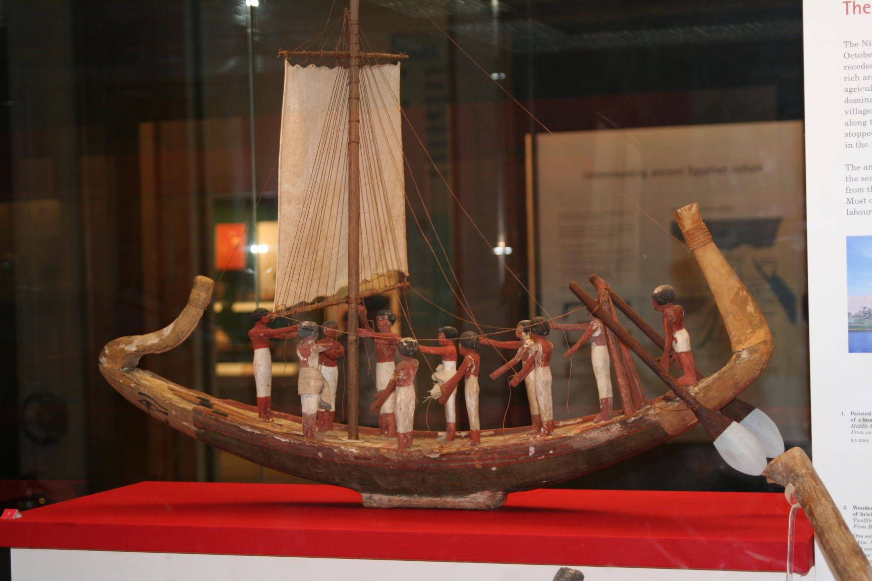 Photos taken in the Egyptian Gallery - British Museum